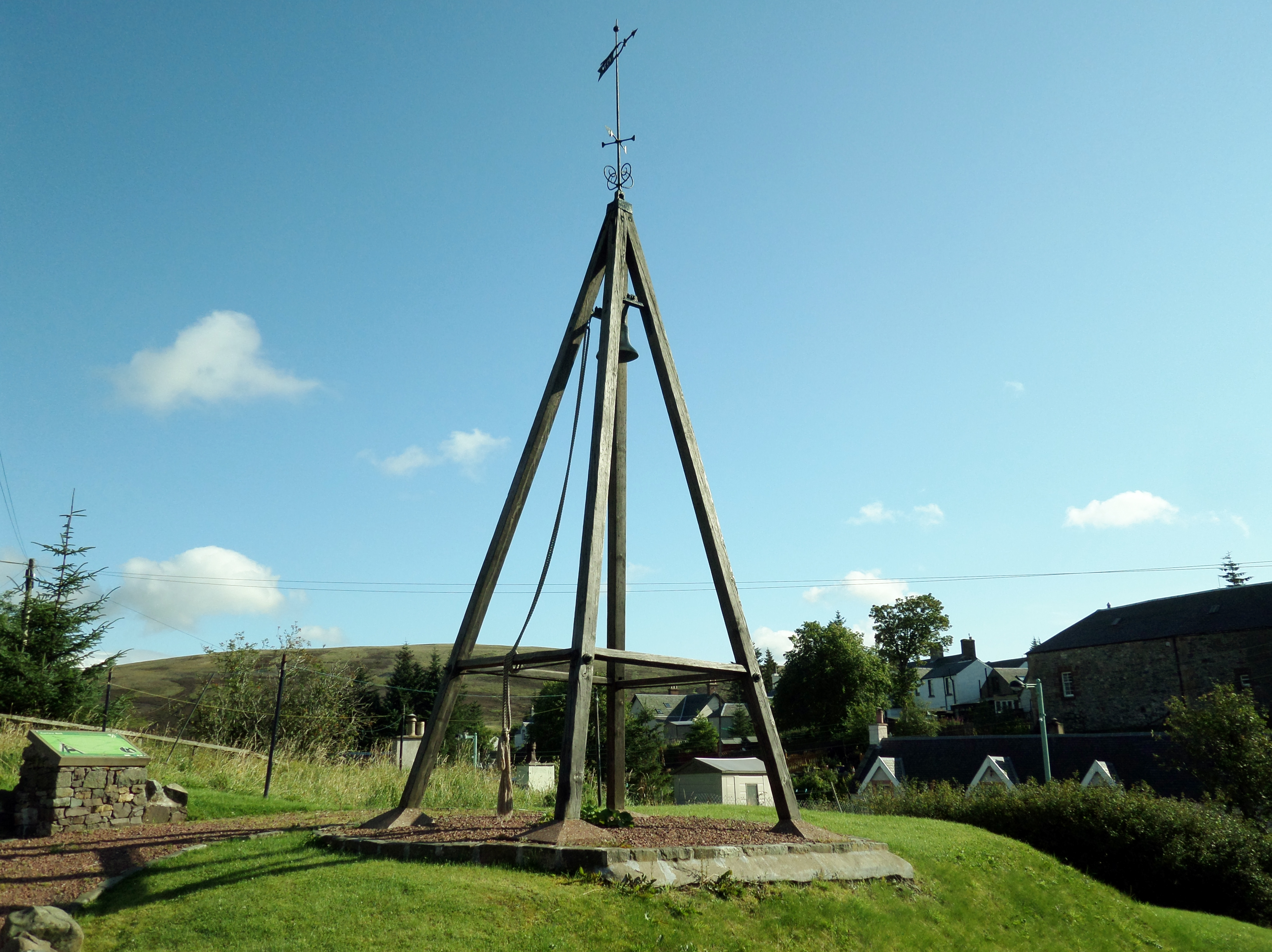 Leadhills, the Curfew Bell, Lanarkshire, Scotland.